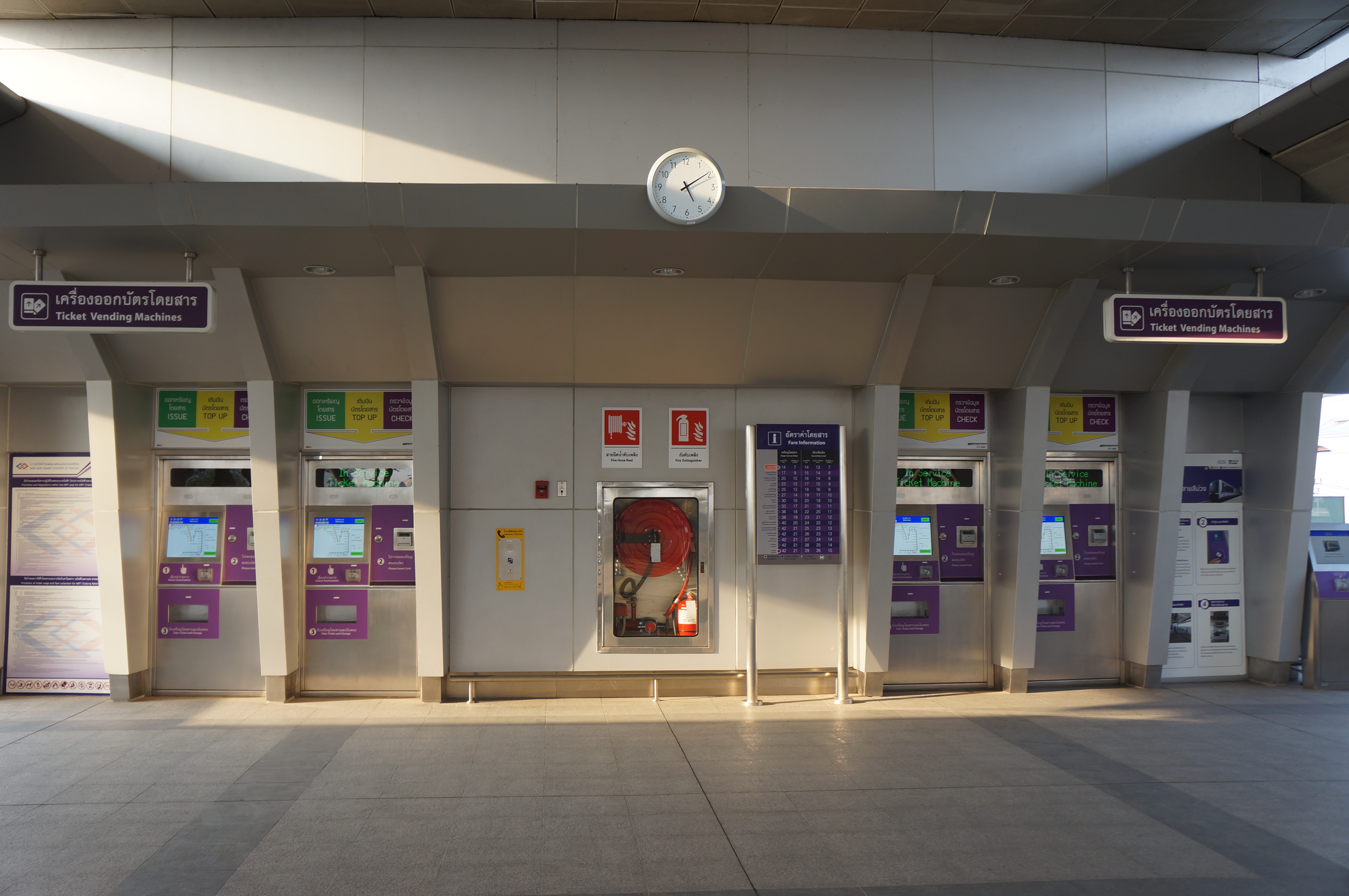 201701 Ticket Vending machines at Khlong Bang Phai Station